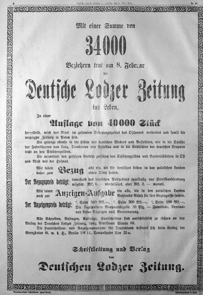 Advert in ‚Deutsche Lodzer Zeitung‘ from March 1, 1915